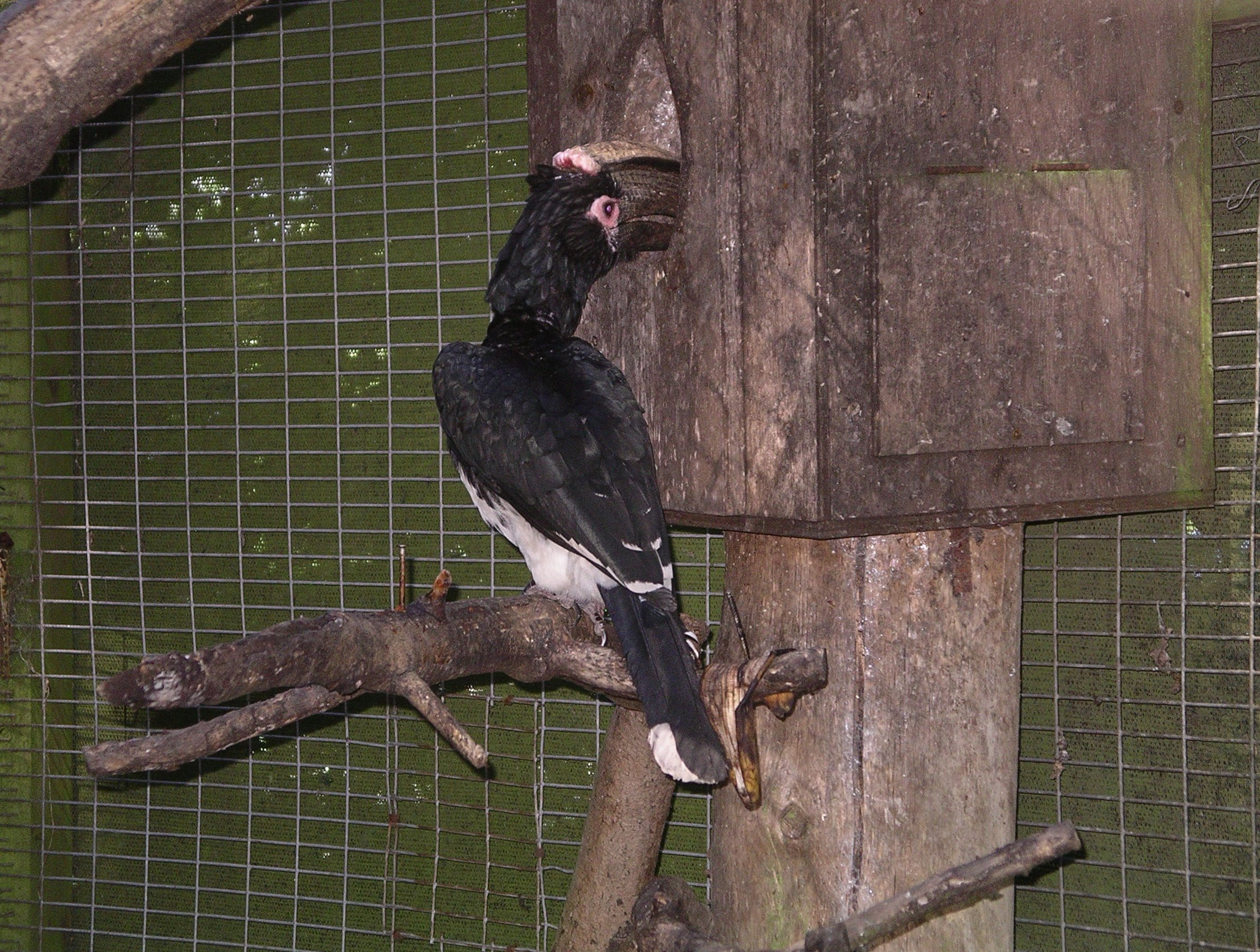 photo of a Trumpeter Hornbill feeding his mate who has sealed herself in the nest. Photo taken in Tropical Birdland, Leicestershire, England.